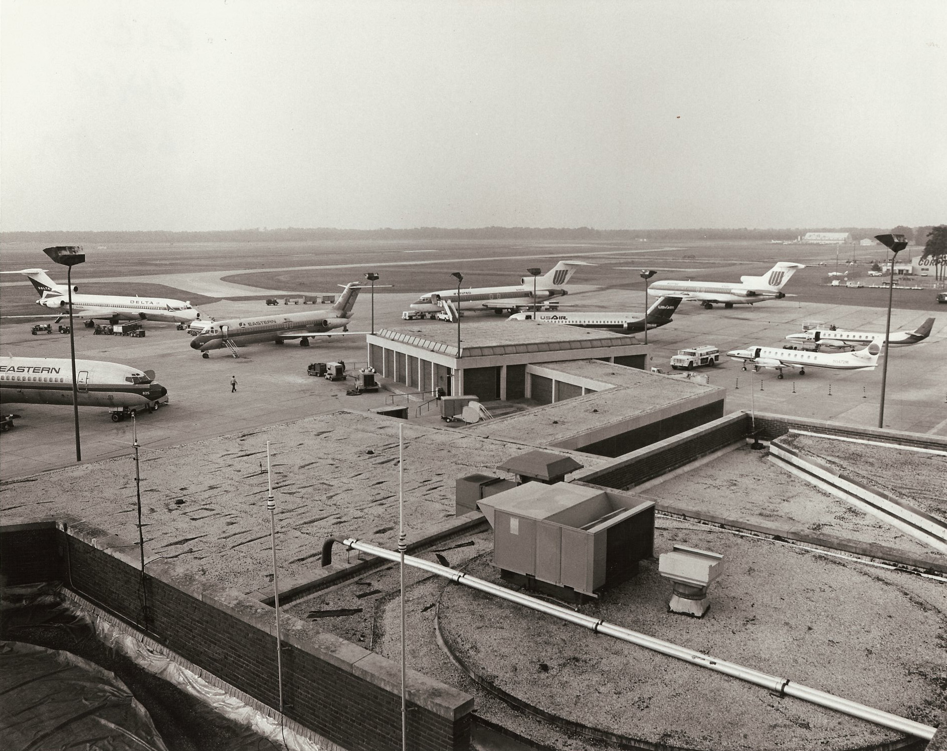 From the Virginia Aeronautical Historical Society's collection.